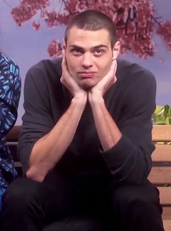 Interview with actors from the movie To All the Boys: P.S. I Still Love You, Lana Condor (Lara Jean) and Noah Centineo (Peter Kavinsky).